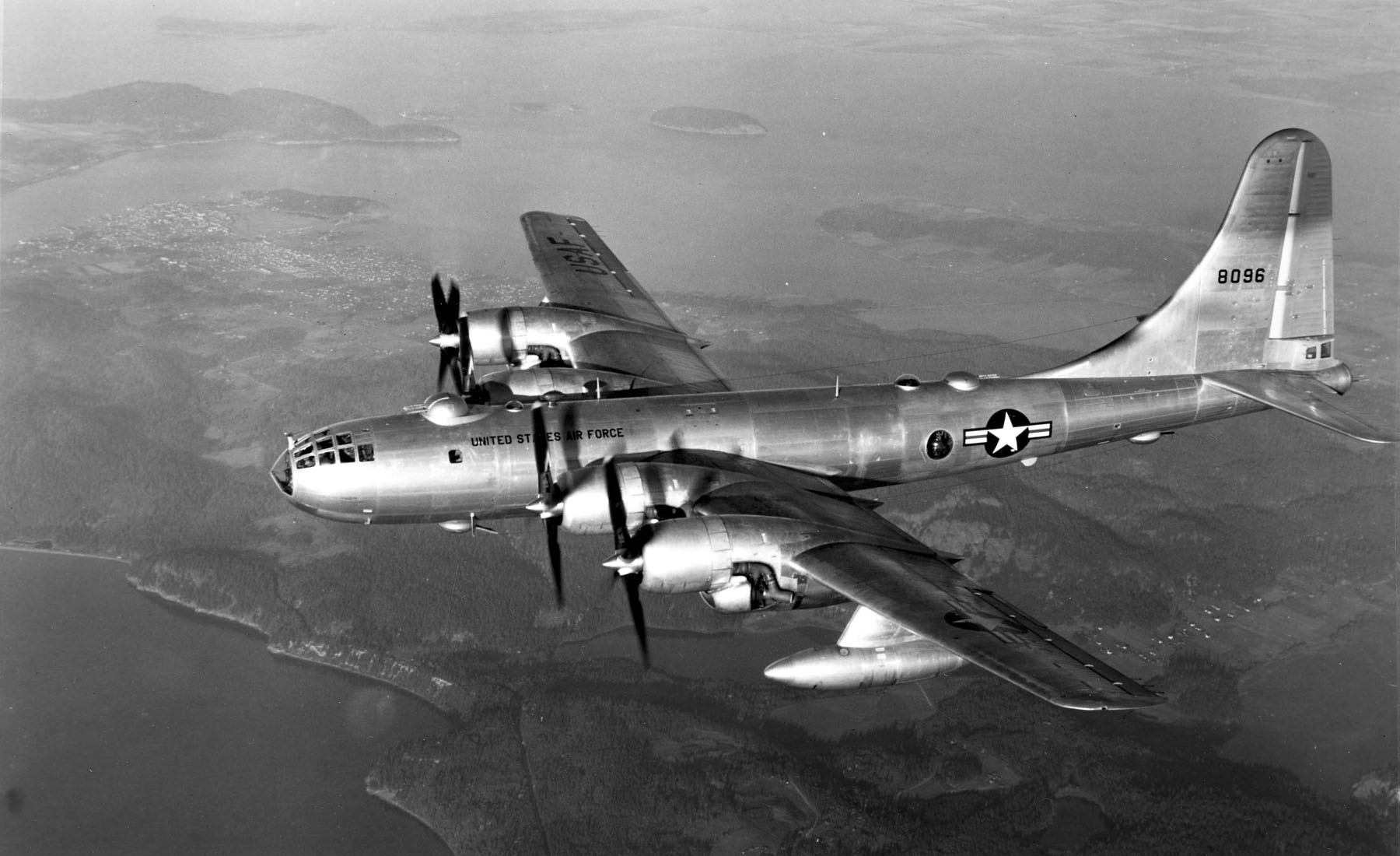 Boeing B-50D-95-BO (s/n 48-096, c/n 15905)